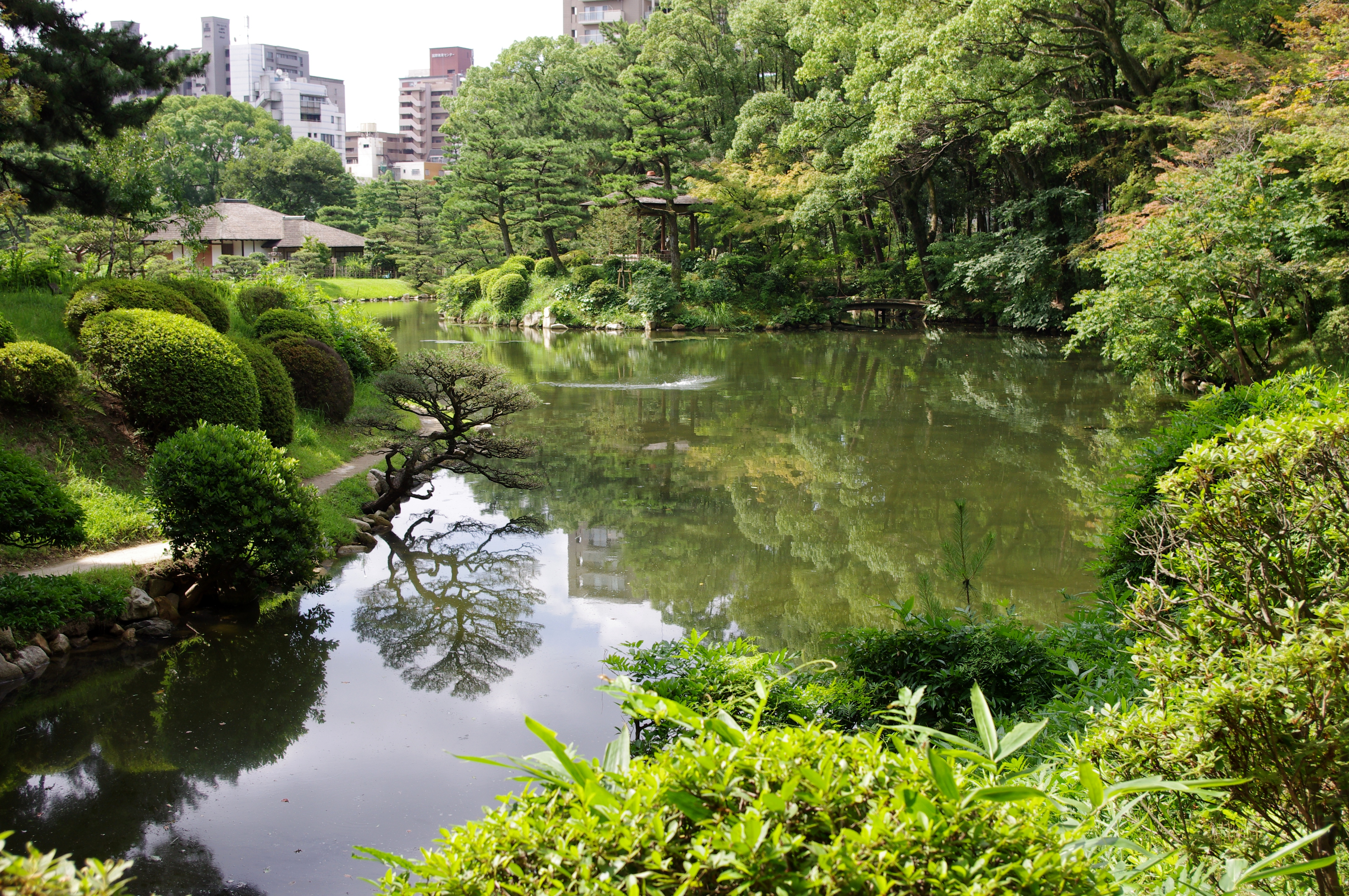 Shukkei-en Garden in the city of Hiroshima